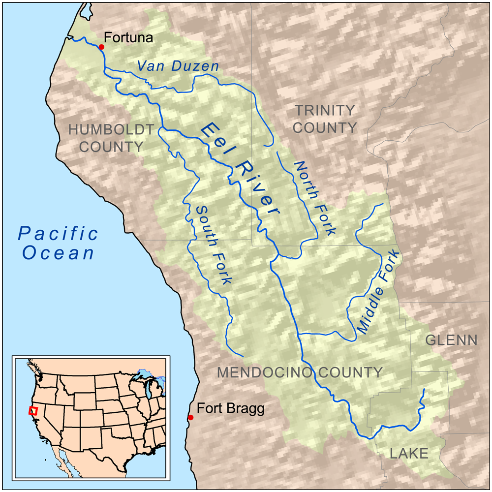 Map of the Eel River drainage basin — in Northern California.